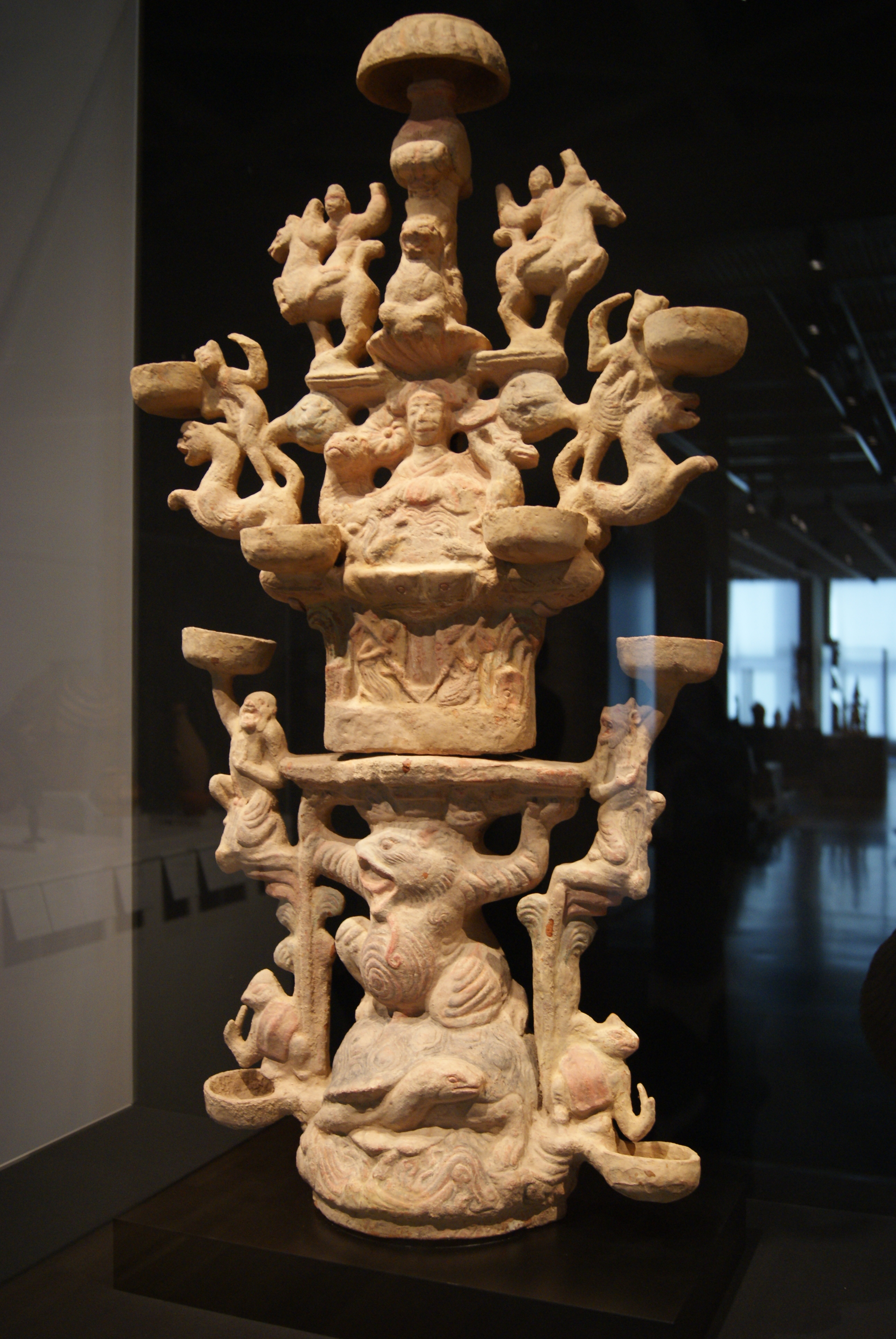 A lamp representing the realm of the Queen Mother of the West (西王母; Xi Wangmu).